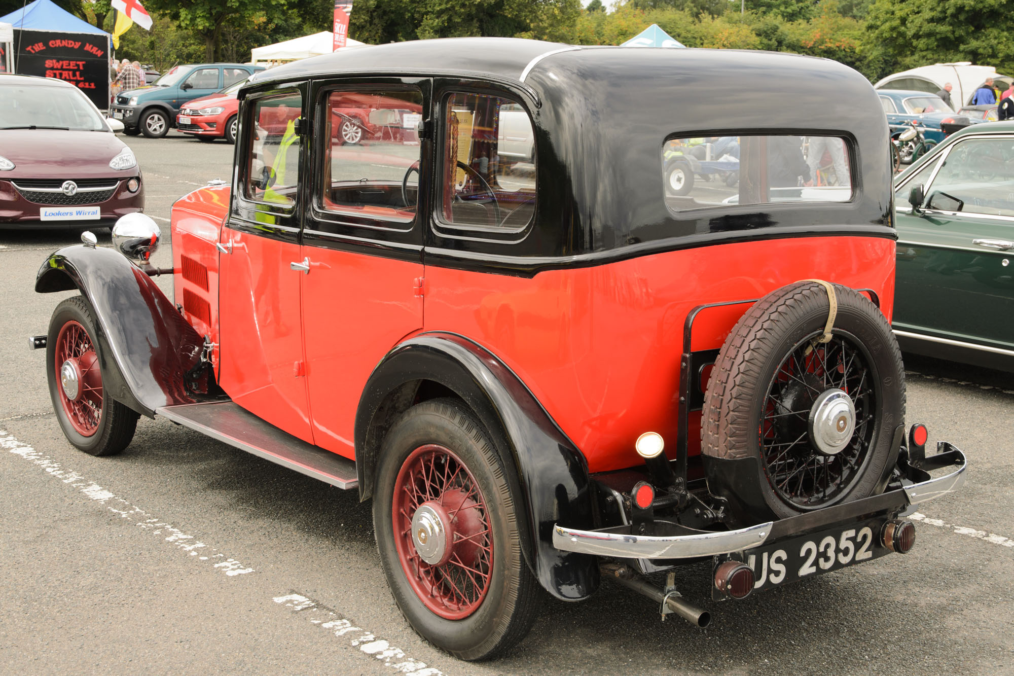 1933 Rover 10 Special US2352 (DVLA) first registered 14 July 1933 2/08/2015 North Cheshire Classic Car Club at Ellesmere Port